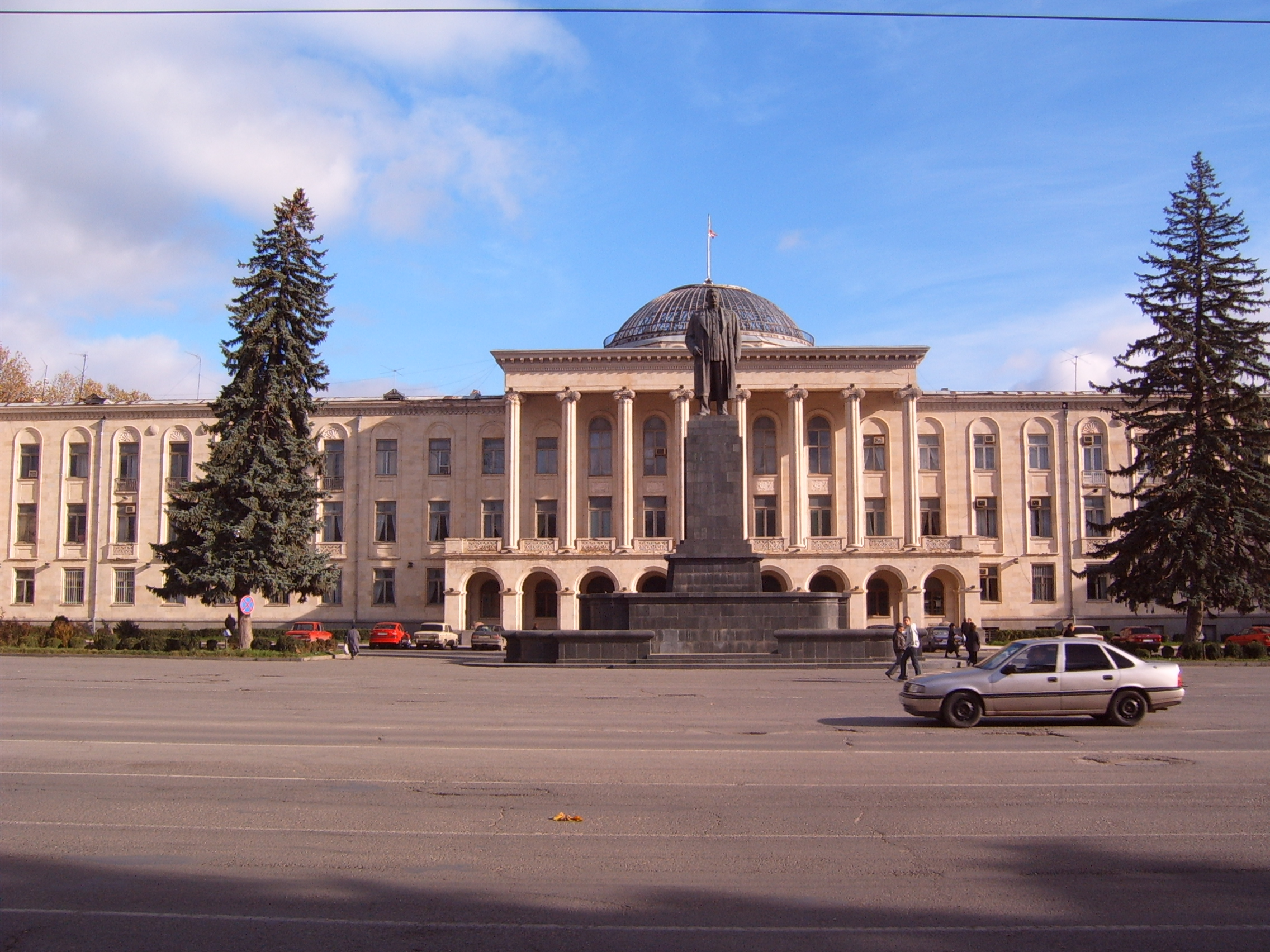 City Hall Gori, Georgia with Stalin statue in front